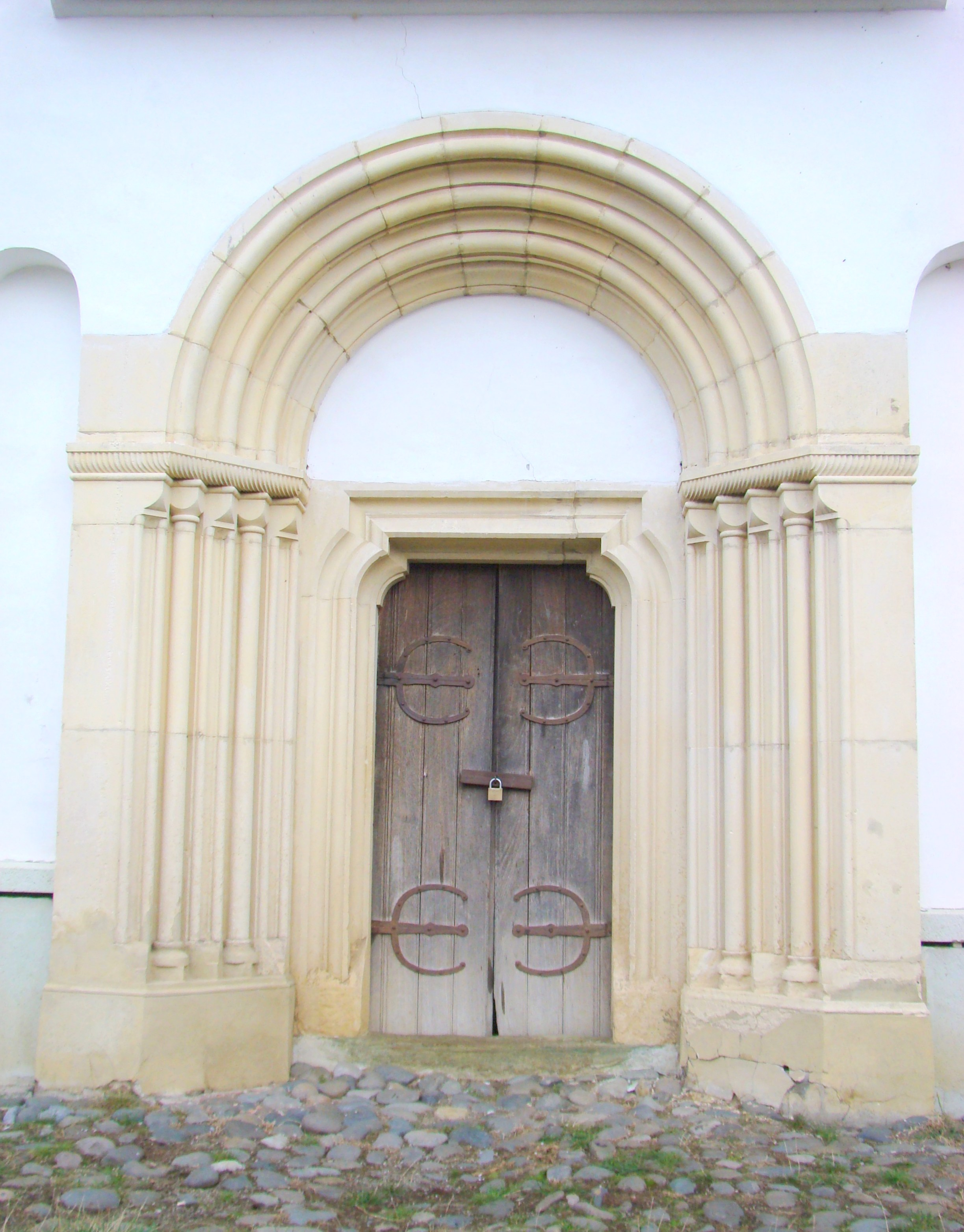 Lutheran church in Herina, Bistrița-Năsăud county, Romania